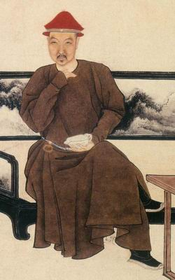 Cropped picture of Yu Zhiding's (禹之鼎) portrait of poet Nalan Xingde (納蘭性德). Original painting is named Portrait of Nalan Rongruo (納蘭容若像) and housed at the Palace Museum in Beijing.